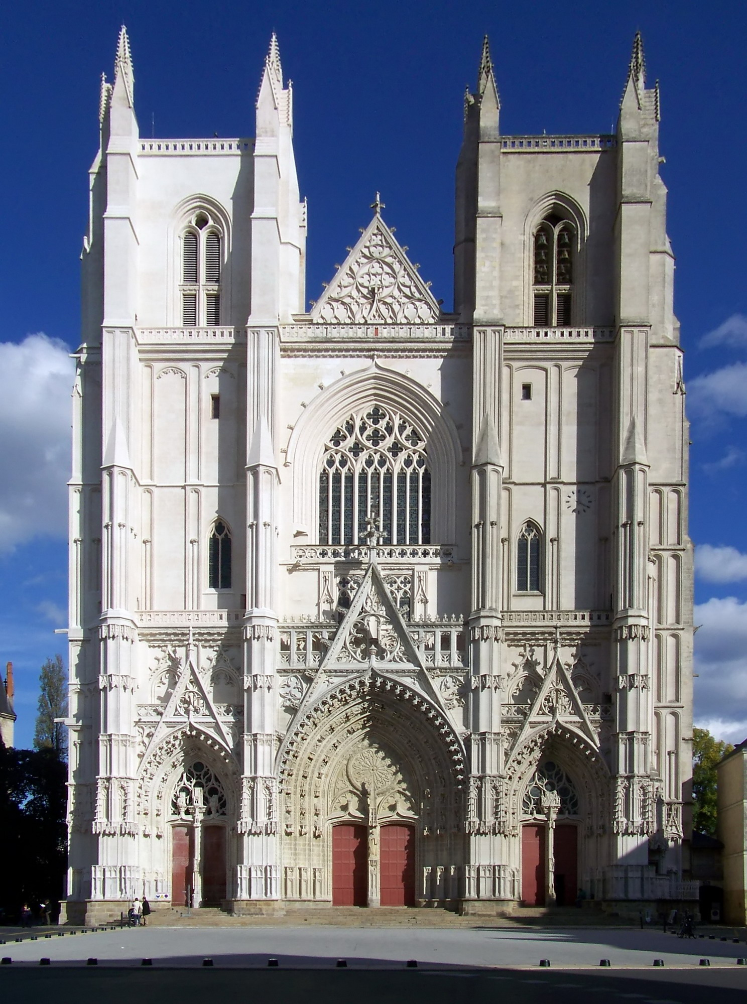 Facade of the Cathédrale Saint-Pierre et Saint-Paul de Nantes.